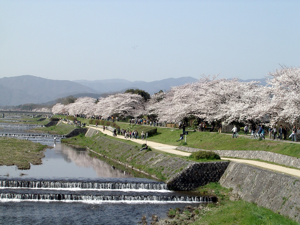 Sakura (Cherry Blossoms) at Kamogawa river, Kyoto, Japan. 京都市の賀茂川左岸の桜